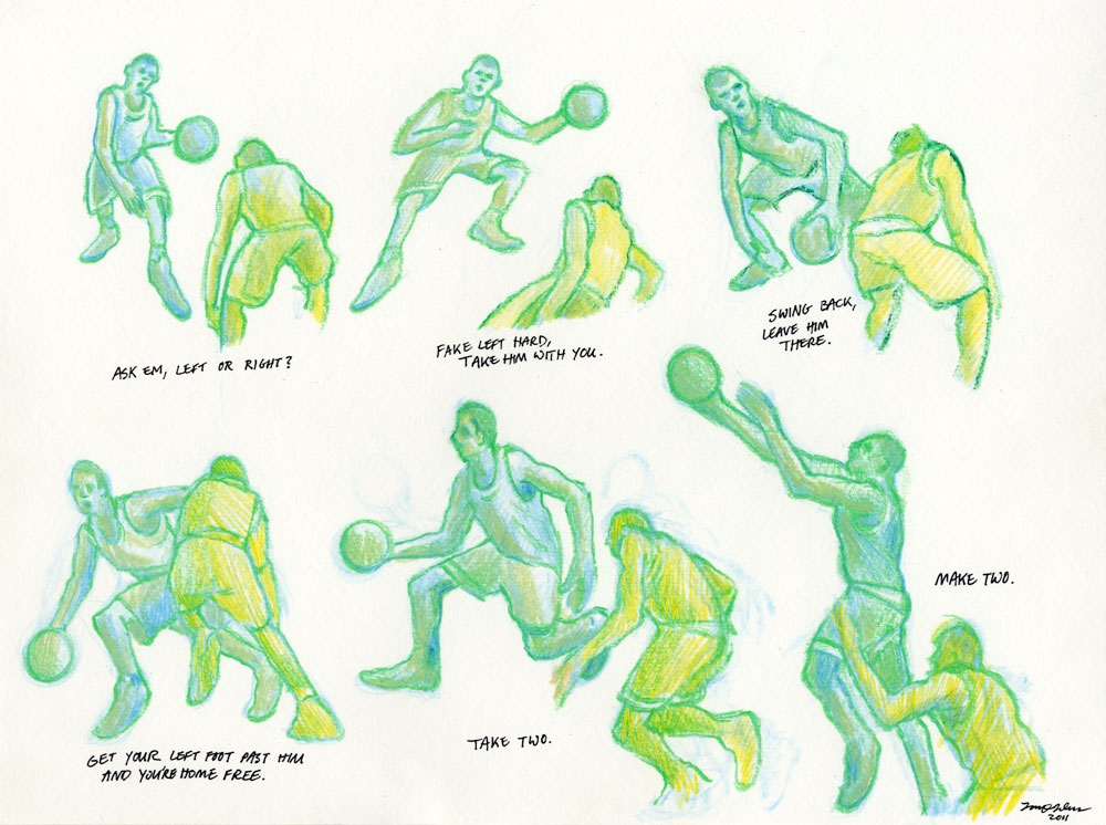 Crossover Dribble illustrated by artist Layet Johnson (